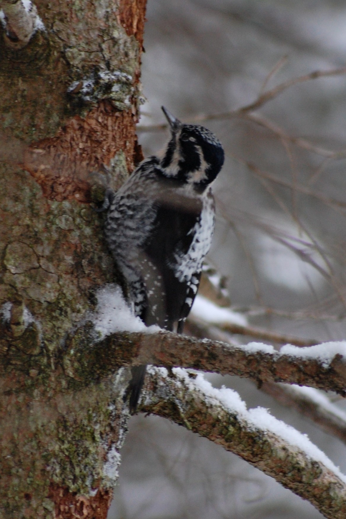 female Three-toed Woodpecker